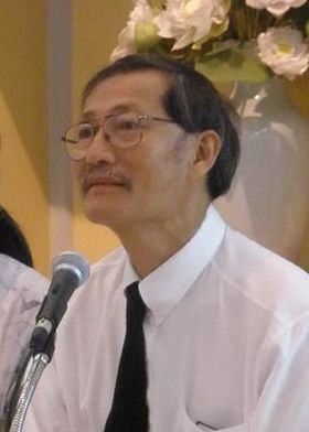 Dr. Kotom Ariya by A.Aruninta. Taken at Chula Narumit house in a rejoicing party hosted by NGOs and CUSRI's networks on the occasion of Asso Prof Surichai Wangaeow's retirement.